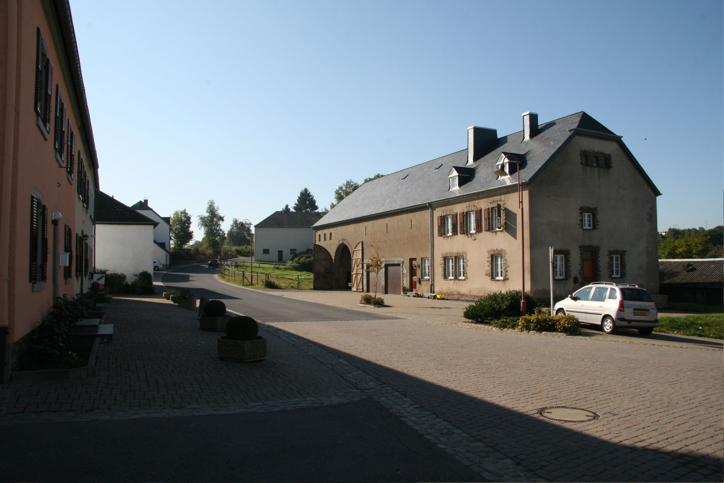 Beautiful rural architecture in Wahlhausen, Luxembourg.